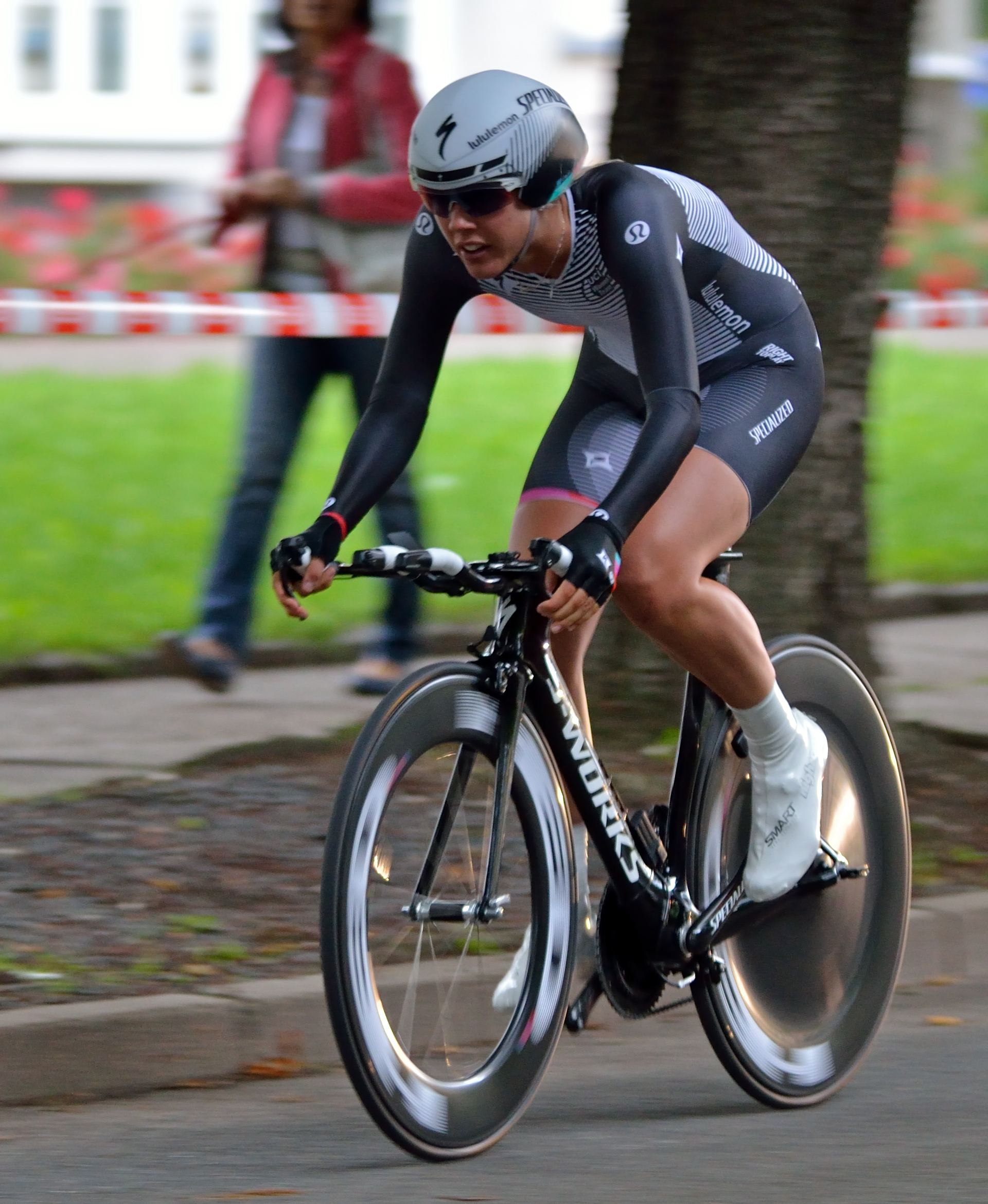 Emilia Fahlin from the Specialized-lululemon team during the Women's Tour of Thuringia 2012 in Zwickau, Germany.